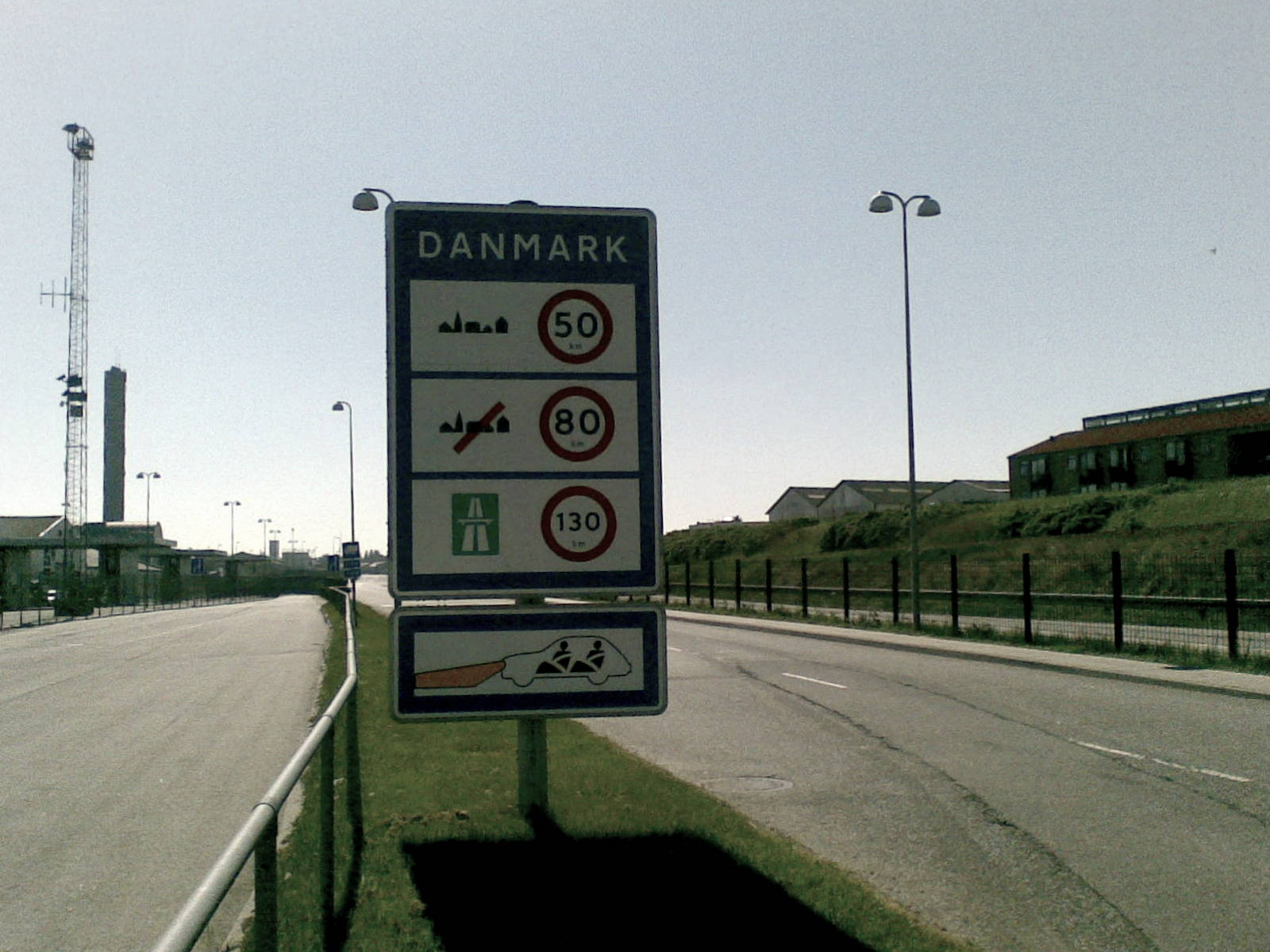 Speed limits in Denmark